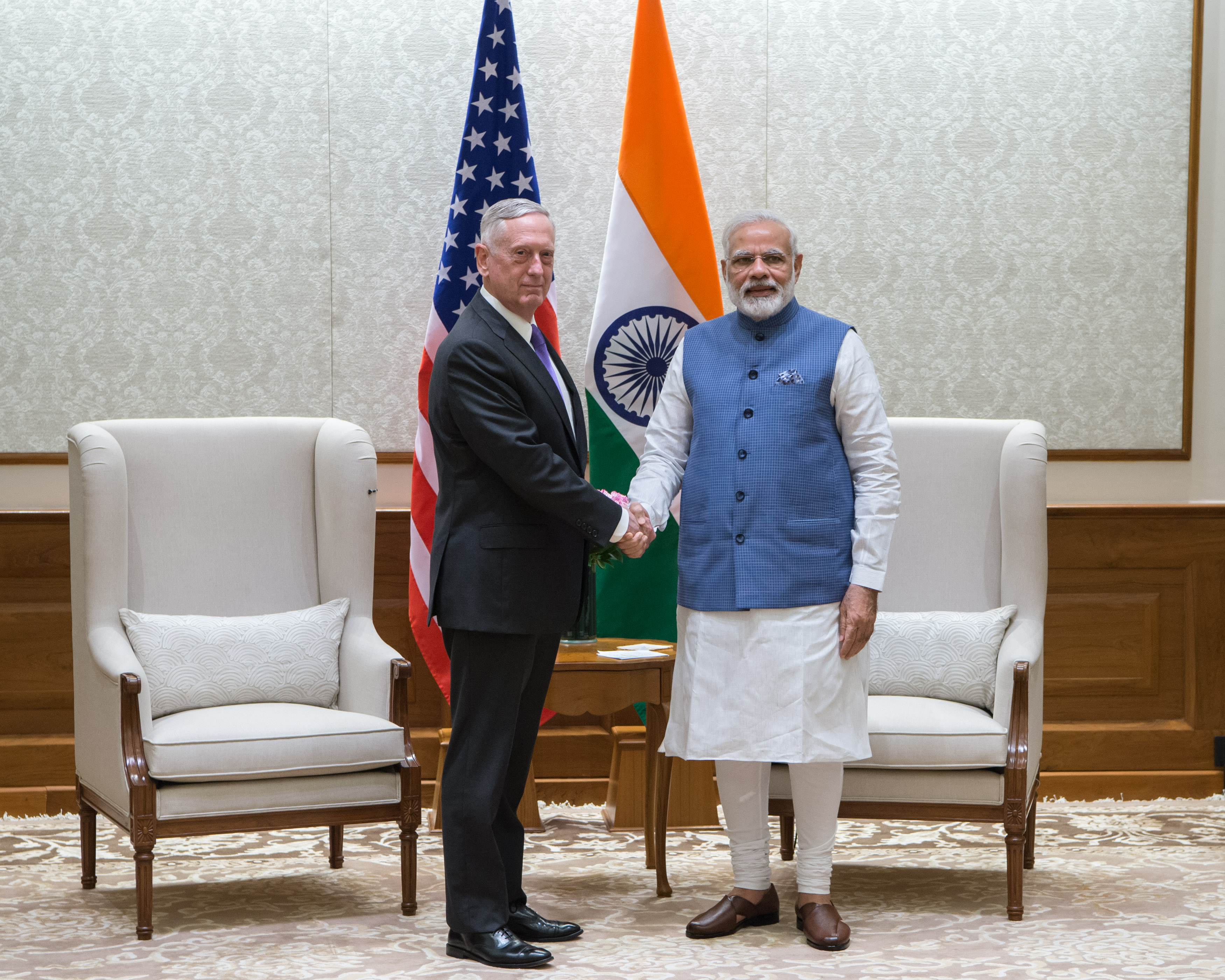 Secretary of Defense Jim Mattis meets with India's Prime Minister Narendra Modi in New Delhi on Sept. 26, 2017. (DOD photo by U.S. Air Force Staff Sgt. Jette Carr)